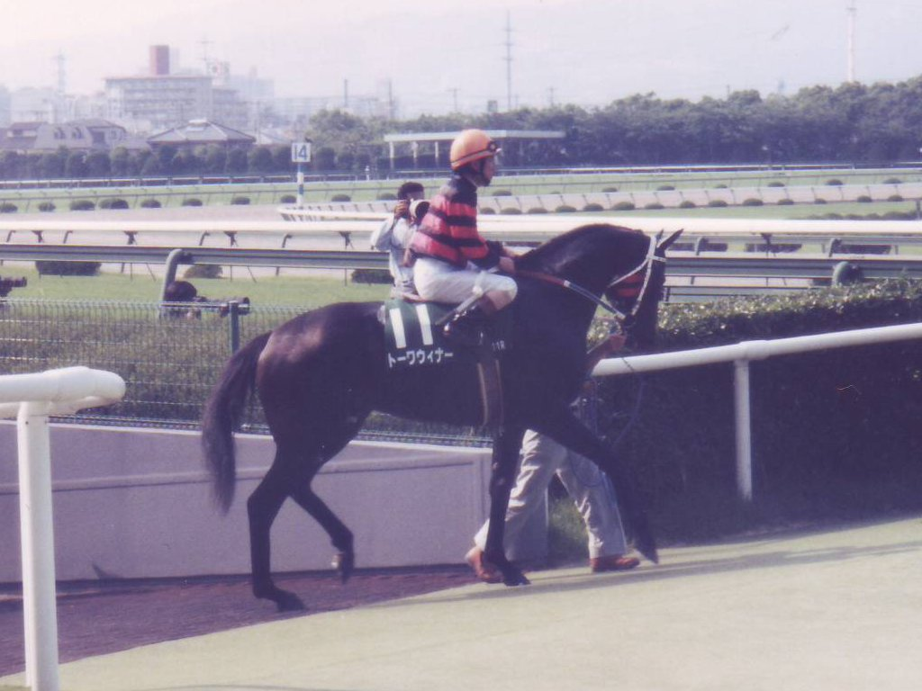 Towa Winner (Racehouses of Japan).